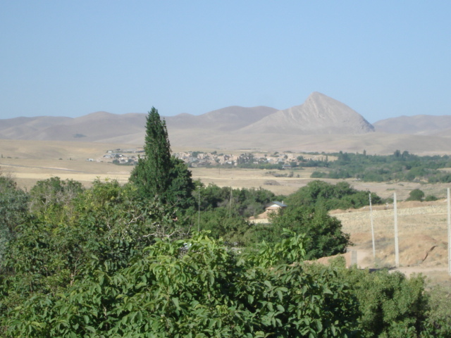 View of Vasmaq from Vidar, a village far from 30 minutes by car to Saveh